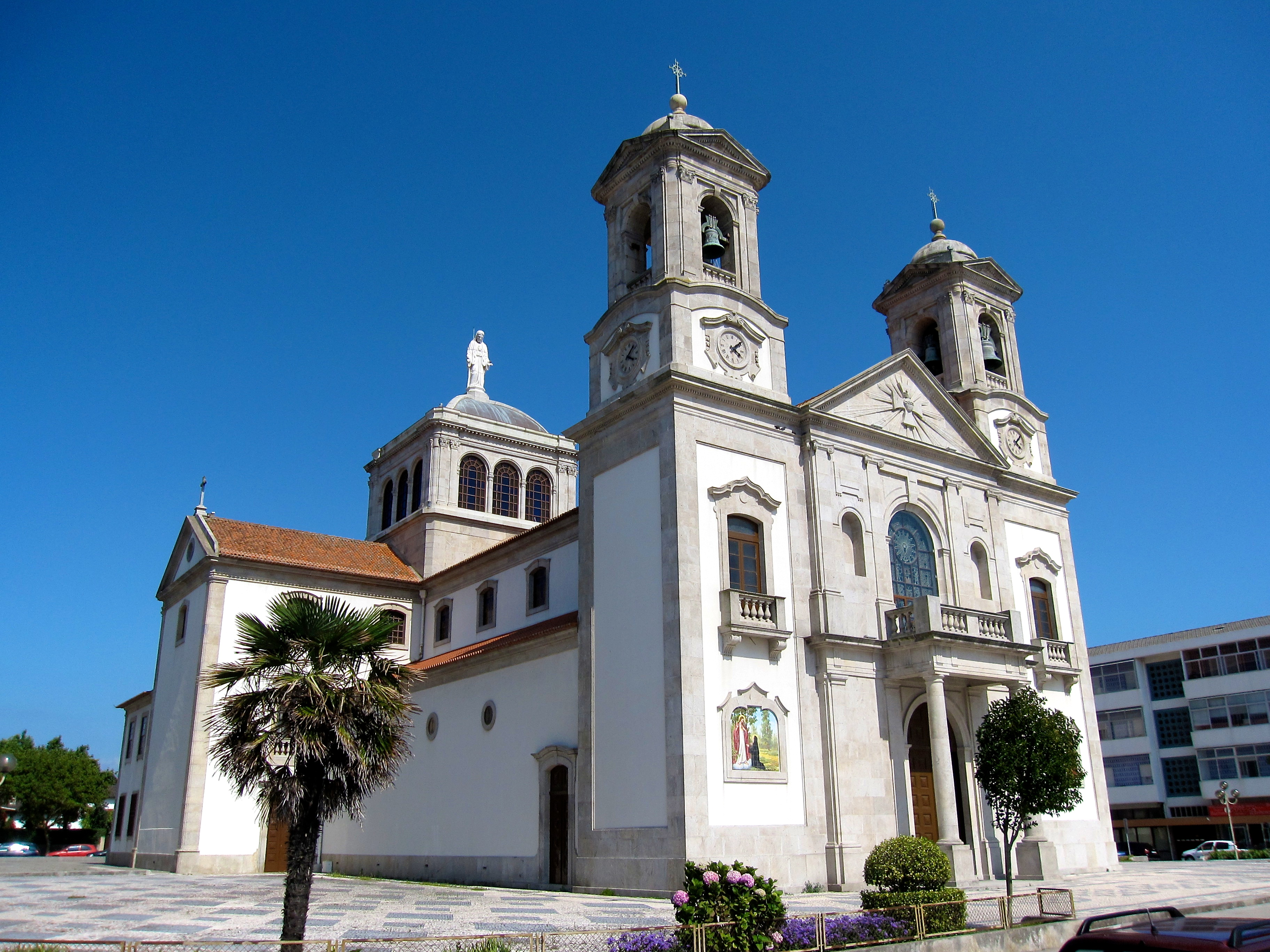 This file was uploaded for Wiki Loves Monuments in Portugal with the unique identifier 97023014.